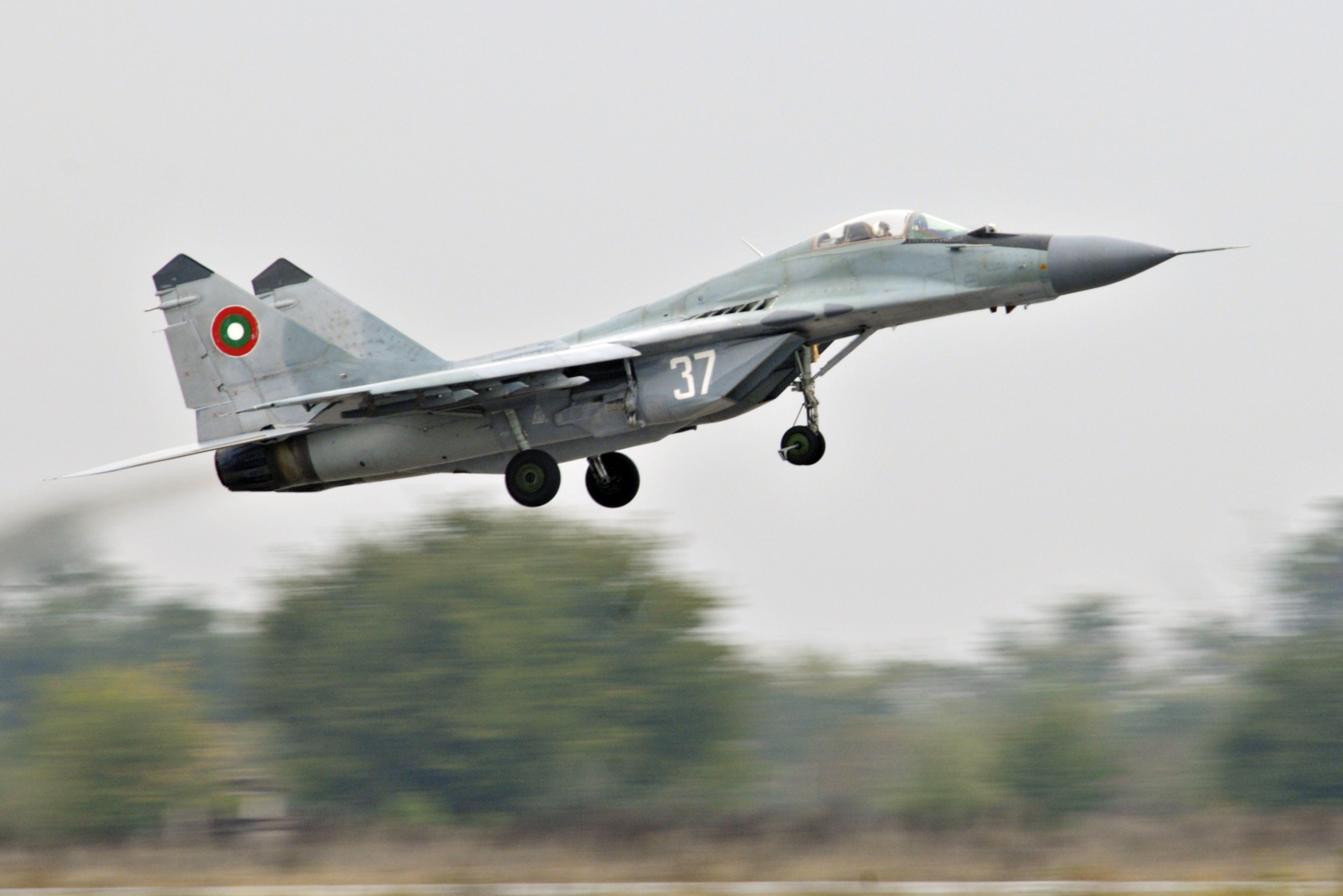 A Bulgarian Mikoyan-Gurevich MiG-29A takes off from the runway from the runway of Graf Ignatievo Air Force Base, Bulgaria, during Operation "Thracian Star" on 13 October 2010. During the operation pilots from Spangdahlem Air Base’s 480th Fighter Squadron trained against MiG-29 and MiG-21 aircraft as well as practiced suppression and destruction of enemy air defense systems.